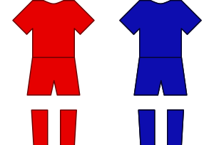 Tehran Derby - FC Persepolis vs Esteghlal. Kits Color.